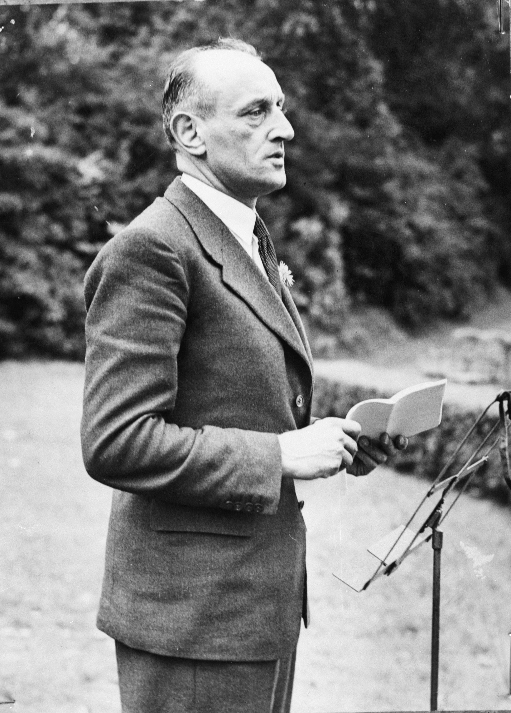 Gerrit Jan van Heuven Goedhart during a speech in Regent's Park (London) on the occasion of (Dutch) Queen's Day, 31 August 1944